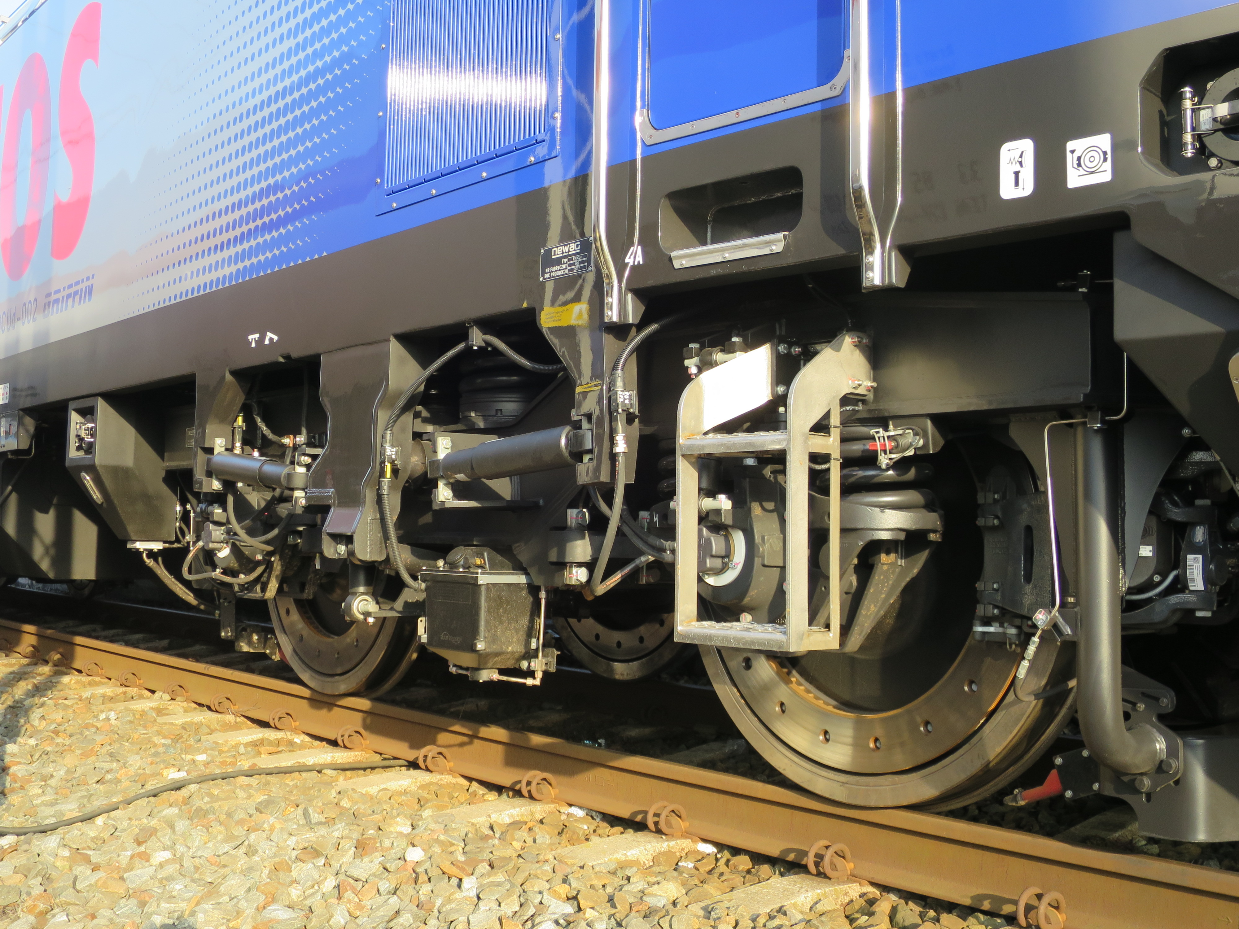 The making of this document was supported by Wikimedia Polska Association, within Wikigrant no. WG 2017-44. Newag Griffin E4DCUd